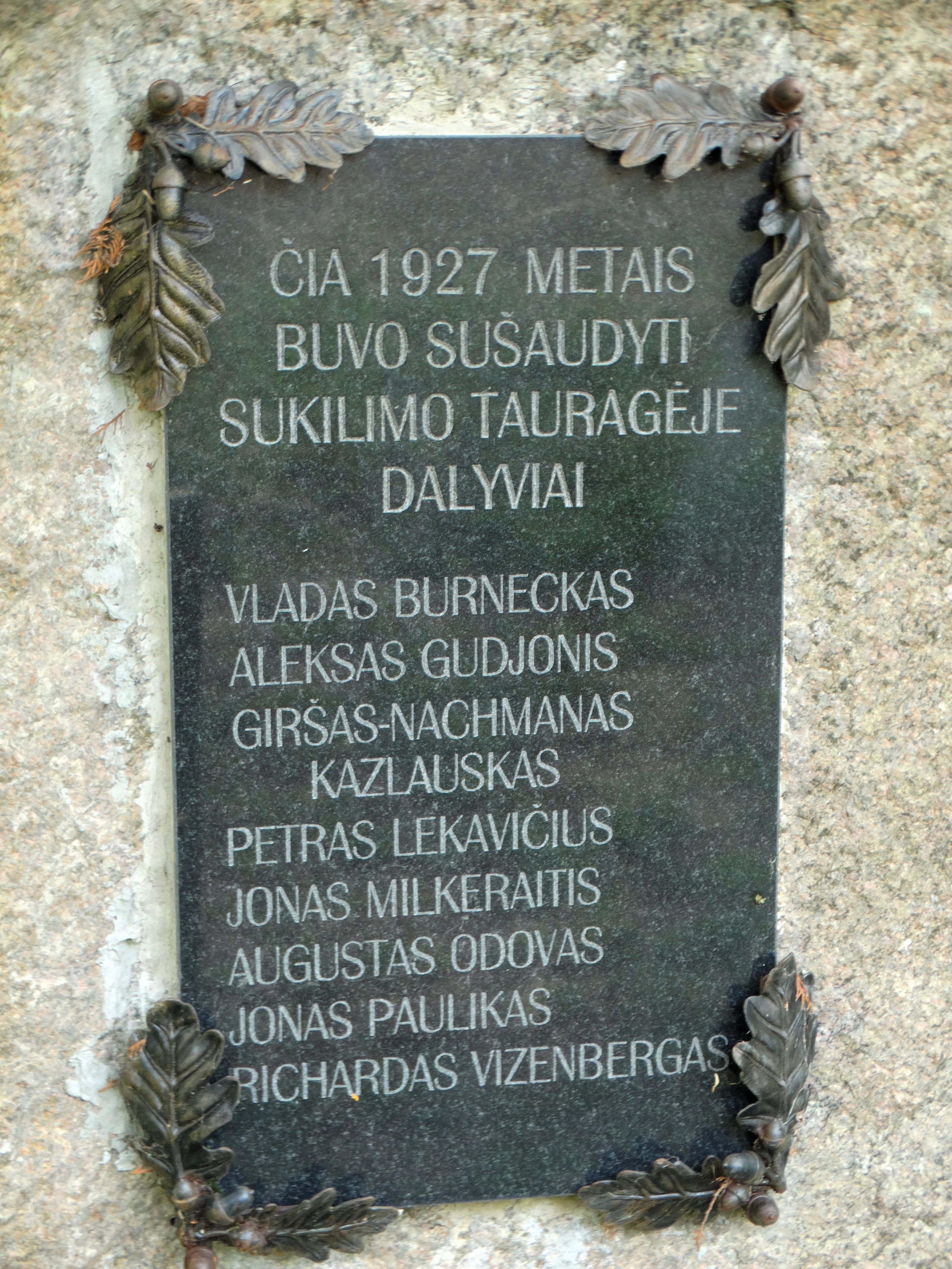 Memorial plaque to Tauragė Revolt (1927) participants (8 shot dead), Lithuania